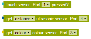 Each NEPO block has a typ. The typ of a block is represented by the coloured output/input connector. In this picture the sensor blocks have different output connectors, representing different typs.